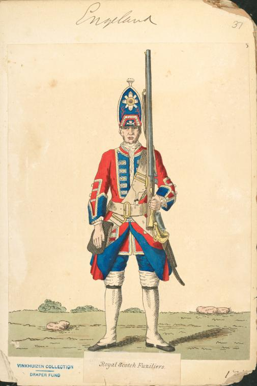 An image of the uniform of a fusilier of the Royal Scotch Fusiliers Royal Scots Fusiliers, in the British Army in 1742. The image seems to be from the 1742 Cloathing Book. This image was taken from the New York Public Library Digital Gallery website. The following is information for this image found on the New York Public Library Digital Gallery website. Digital Image ID: 477277 and Digital Record ID: 293339